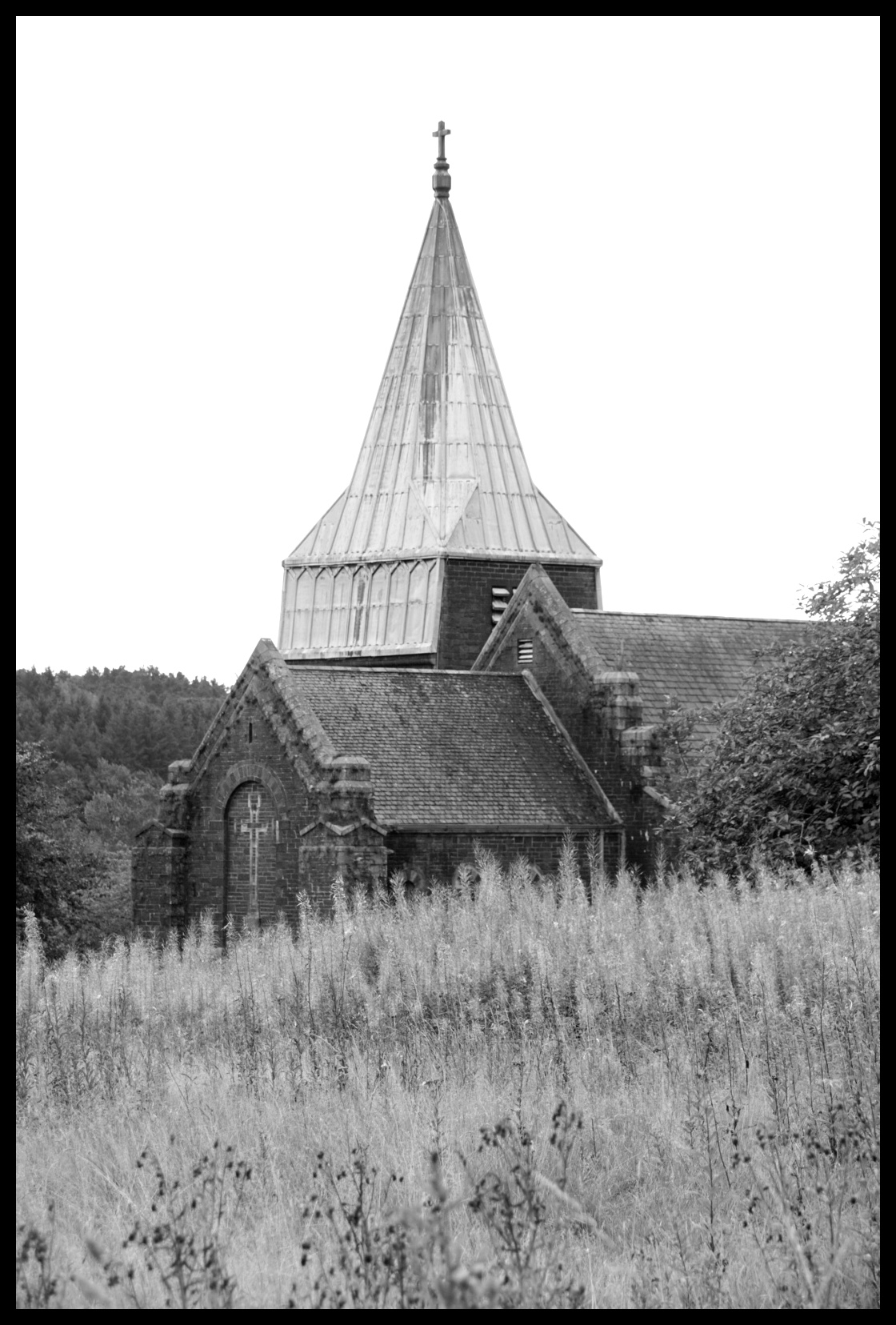 Bangour Village Hospital, Former Memorial Church Wikidata has entry Q17572381 with data related to this item.